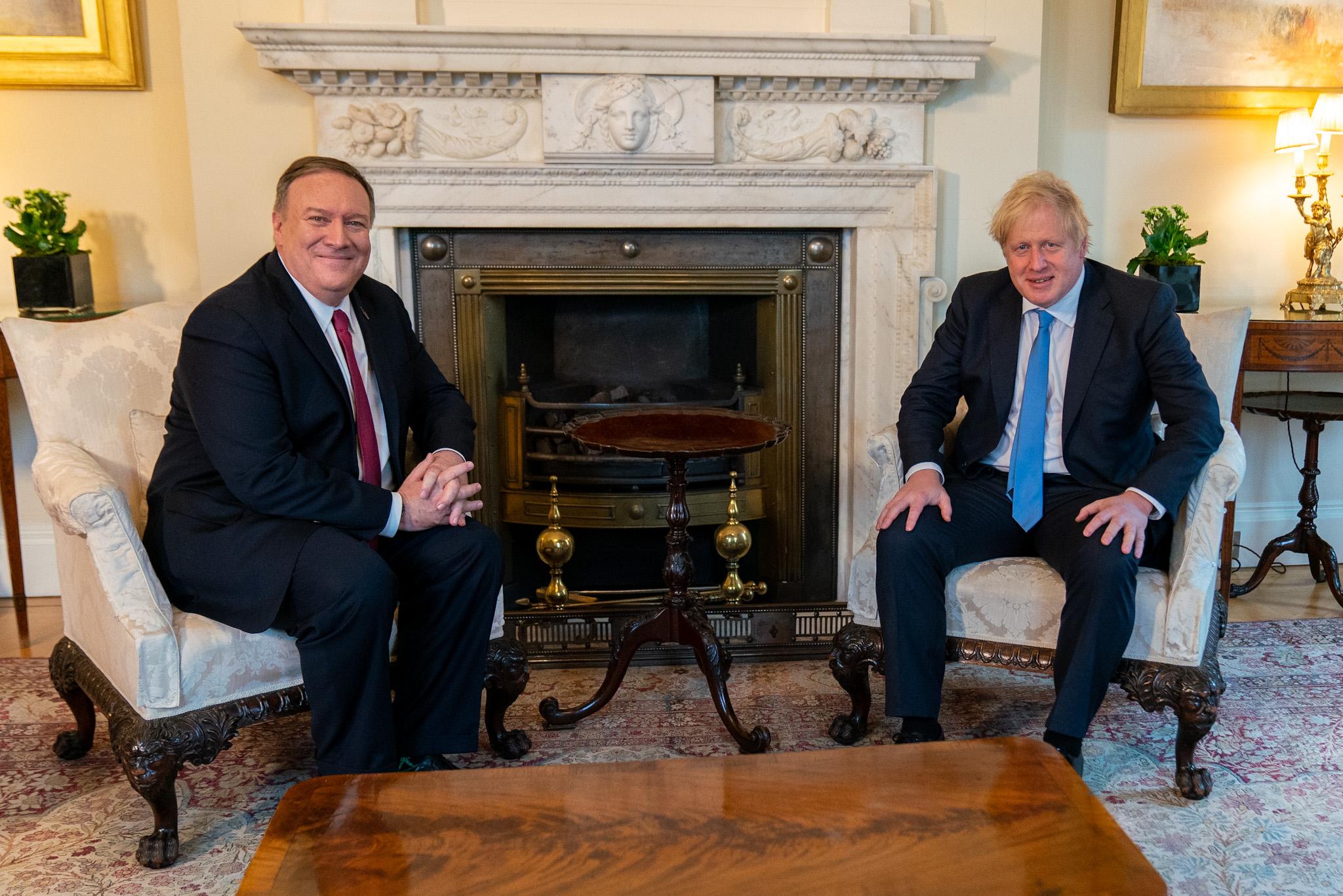 Secretary of State Michael R. Pompeo meets with United Kingdom Prime Minister Boris Johnson at 10 Downing Street, in London, United Kingdom on January 30, 2020. [State Department photo by Ron Przysucha/ Public Domain]